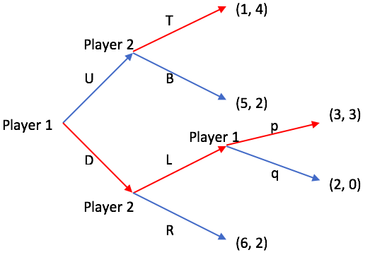 Example 2 of Backwards Induction